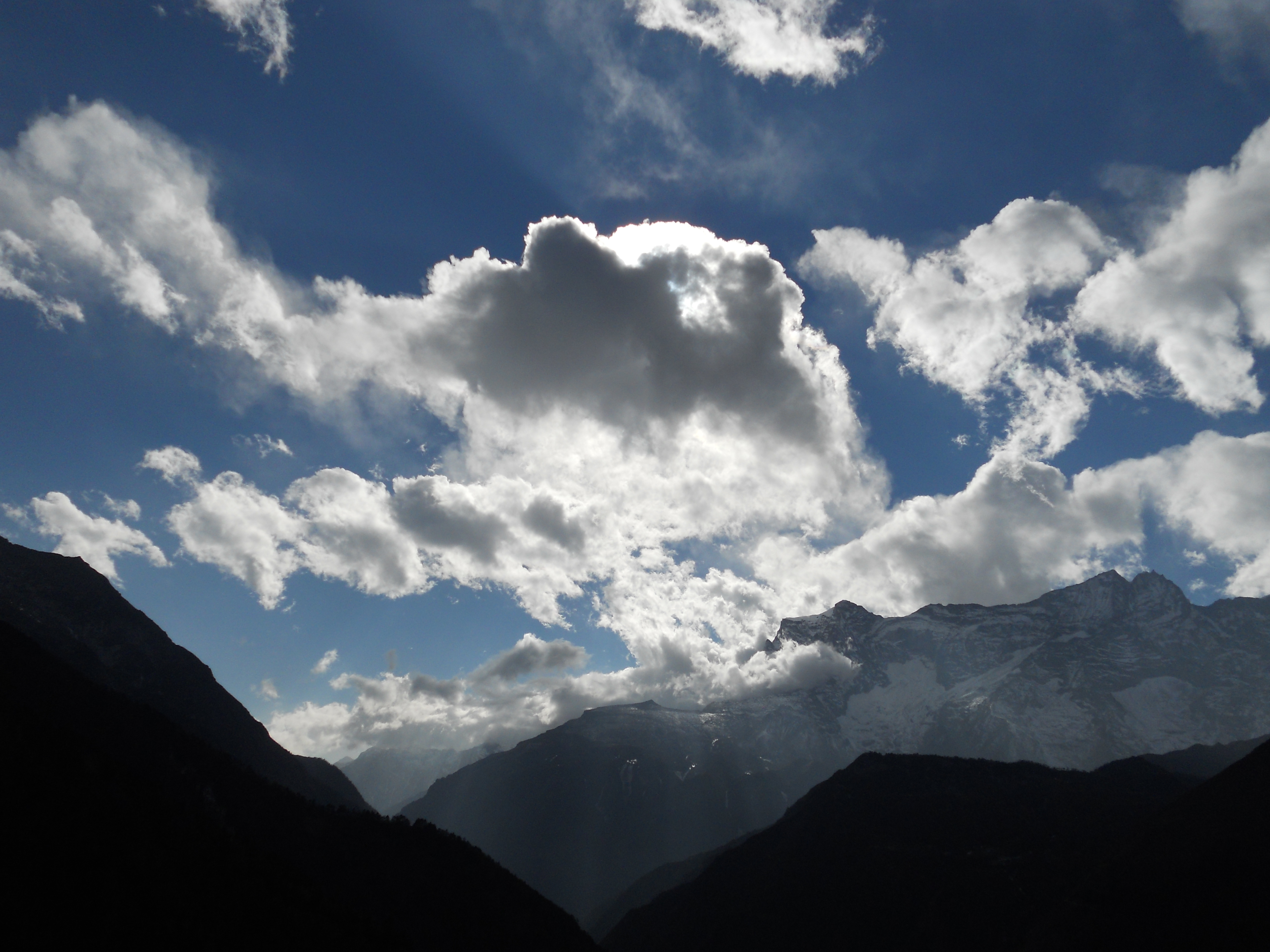 Cloud in nepali sky